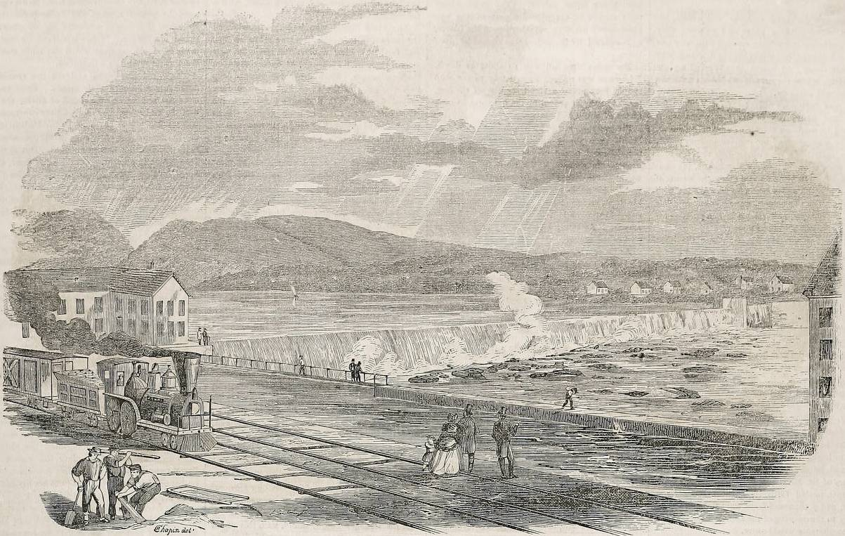 The Holyoke Dam, being the second wooden dam, as it appeared in an engraving from 1851, showing the railway that runs adjacent to what is now Pulaski/Prospect Park in the foreground.